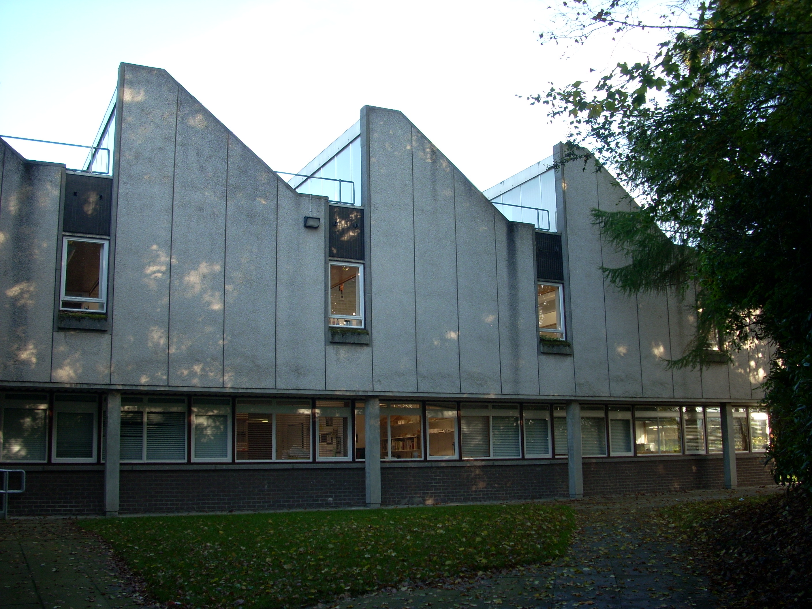 These late-1960s extensions to the Victorian manor of Garthdee House house the Scott Sutherland School of Architecture, part of the Robert Gordon University, Aberdeen, UK. Seen in Autumn 2012.